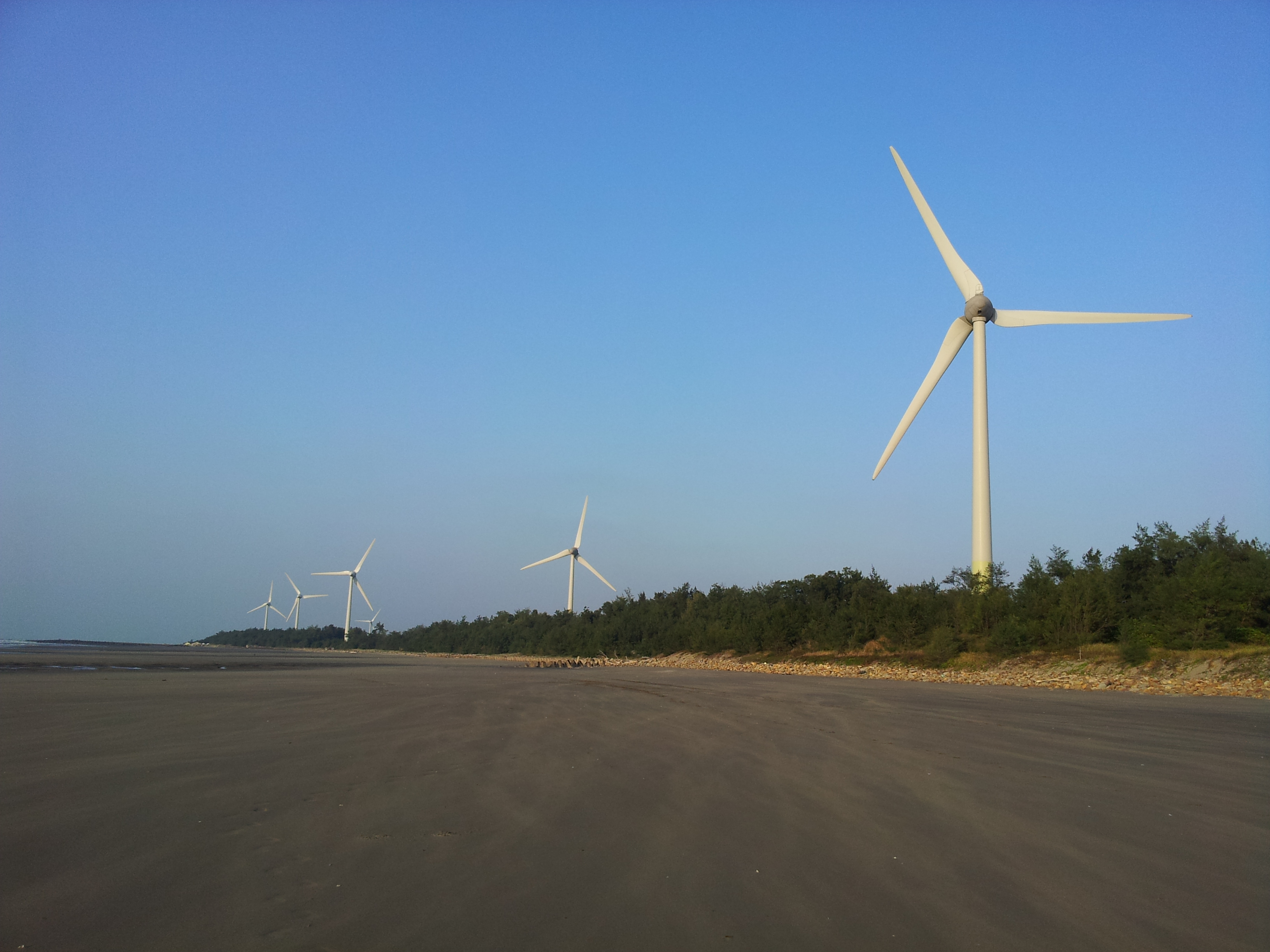 Wind turbines at Zhunan Township, Miaoli County, Taiwan